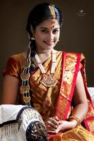 Sudeepapinky